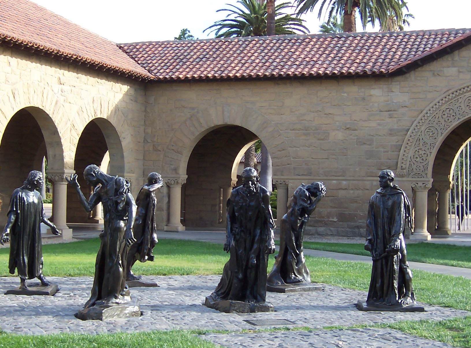 The Burghers of Calais by Auguste Rodin in the Memorial Court of the Main Quad, on the Stanford University campus